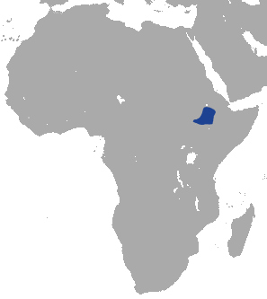 Ethiopian Hare (Lepus fagani) range